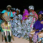 Drummer of Gambia